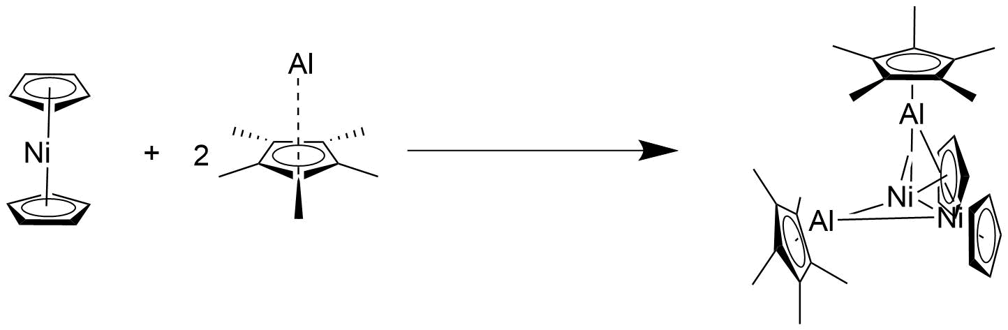 a reaction of nicp2 and alcp*